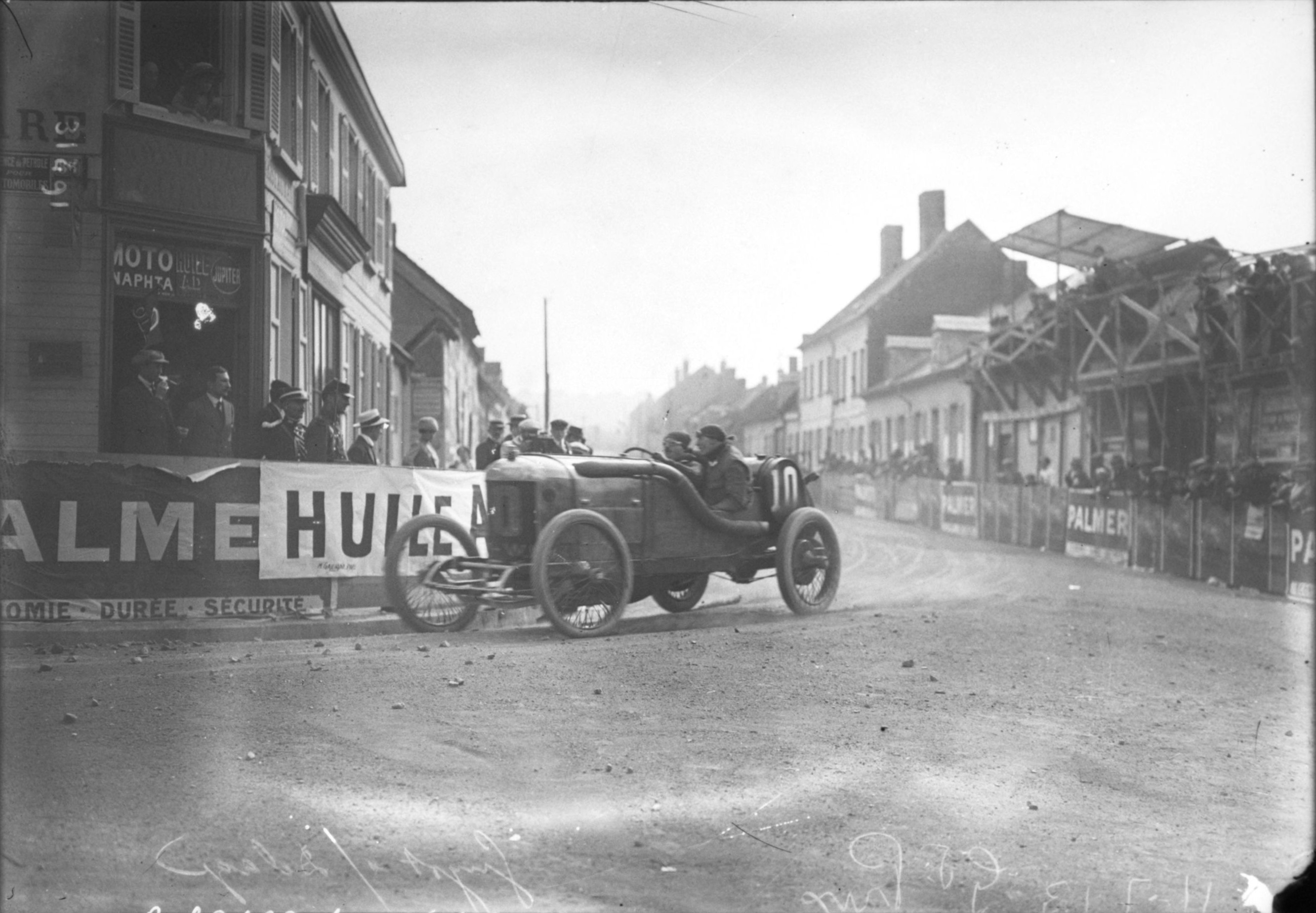 Albert Guyot at the 1913 French Grand Prix